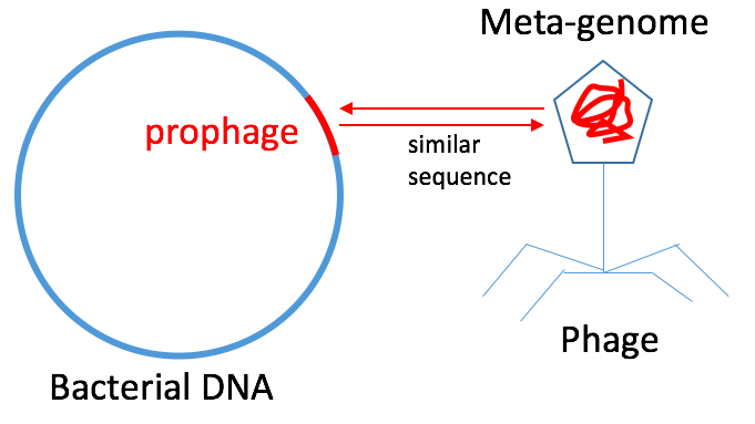 add a new figure